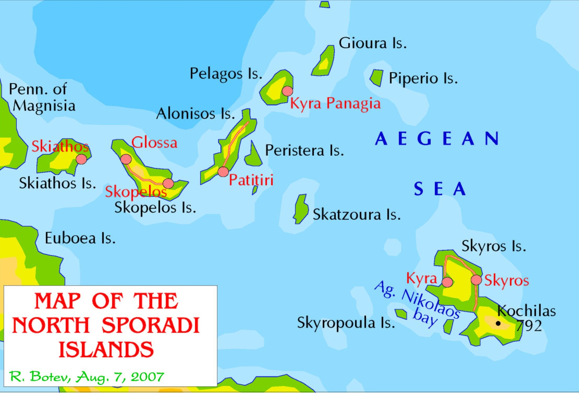 Map of North Sporadi in English